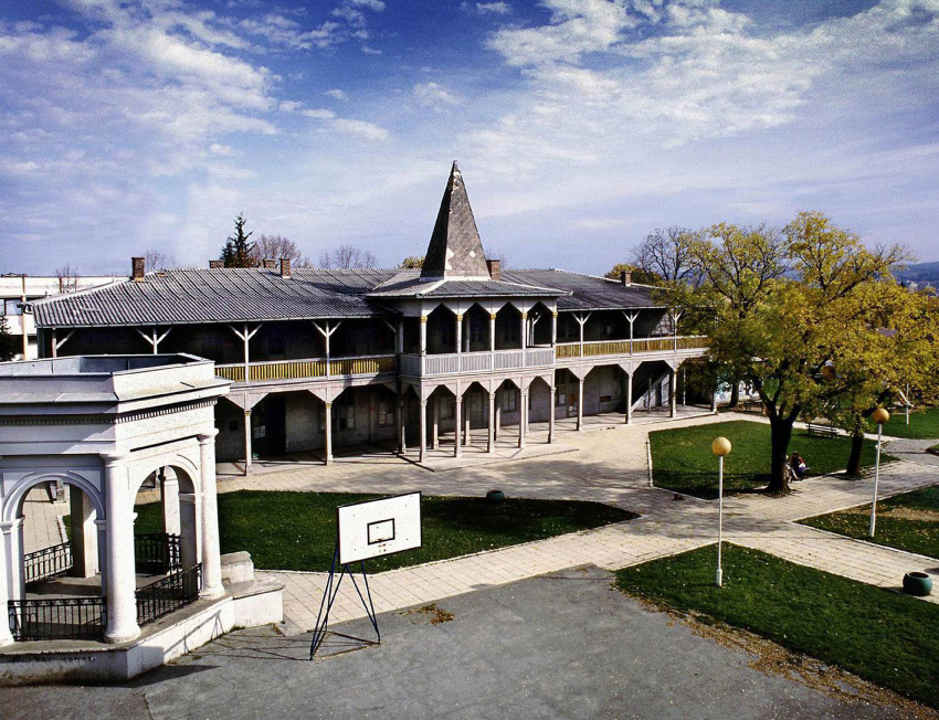 stara kolonija-Sokolana in Kragujevac